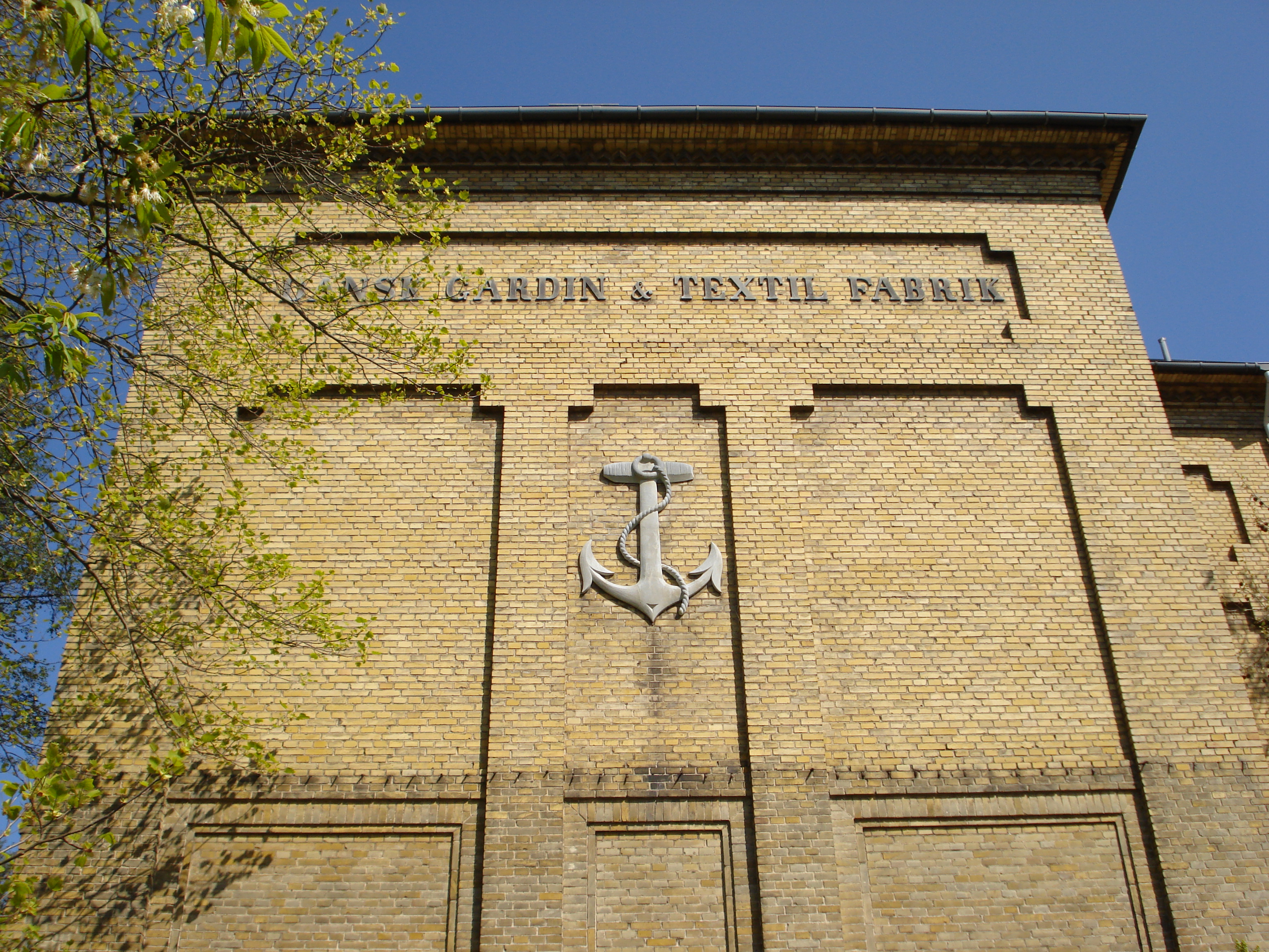 House end of "Dansk Gardin & Textil Fabrik" building in Kongens Lyngby, Denmark